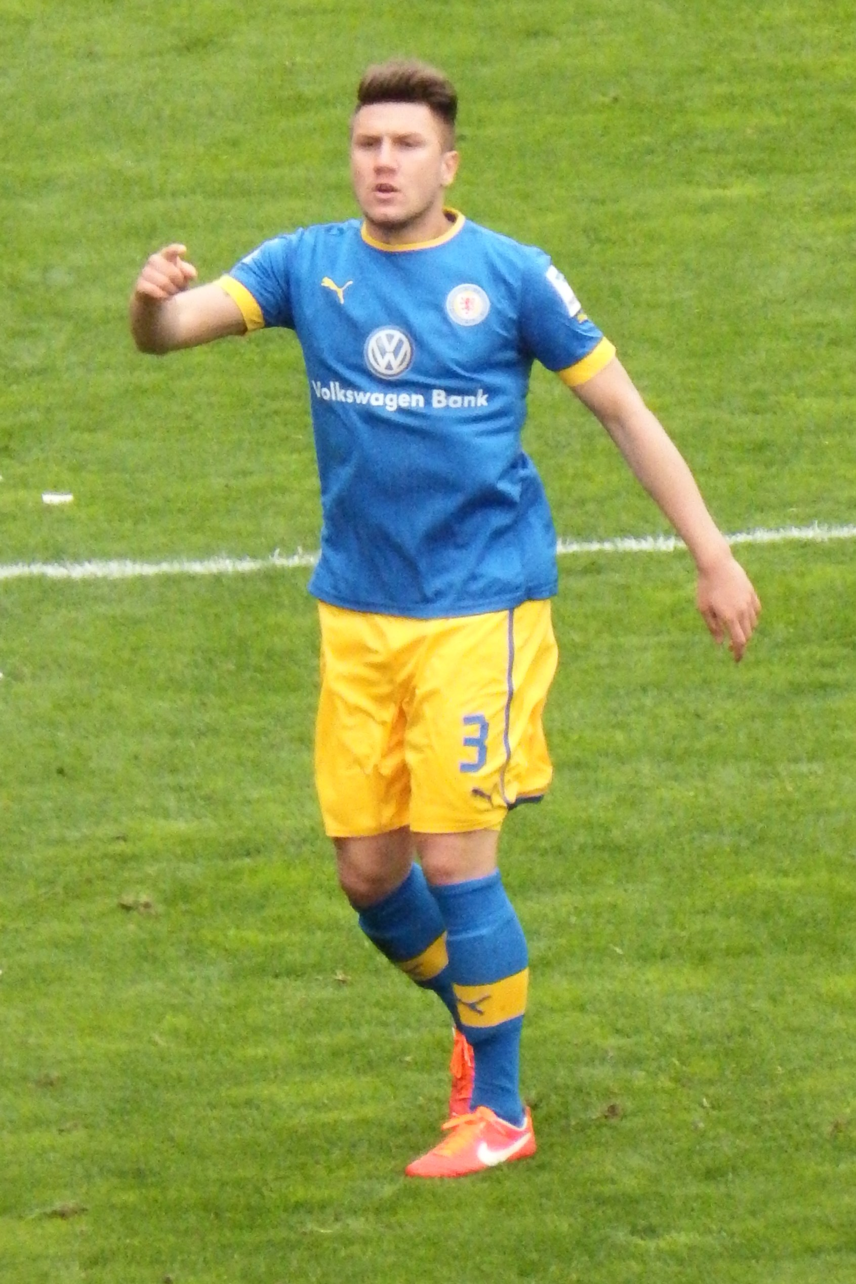 Ermin Bičakčić as Player from Eintracht Braunschweig